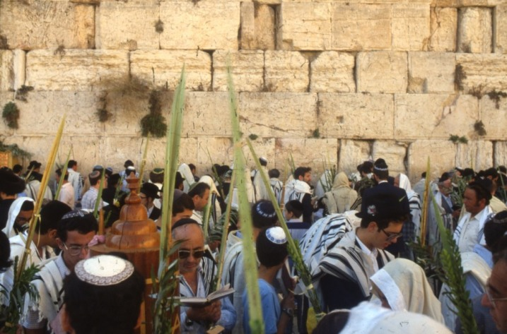 Pray with lulav during Sukkot at the Western Wall in Jerusalem